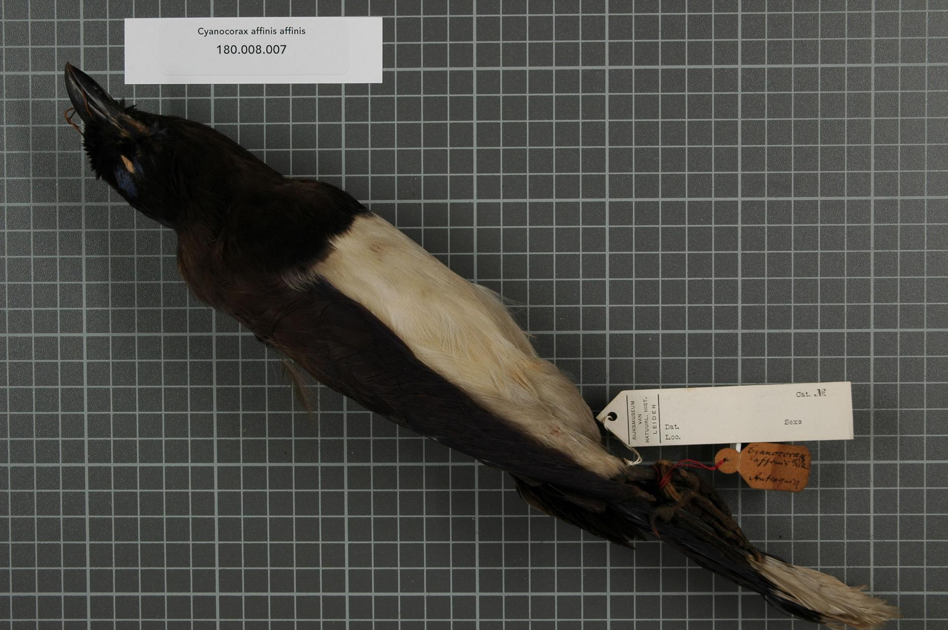 Cyanocorax affinis affinis Pelzeln, 1856